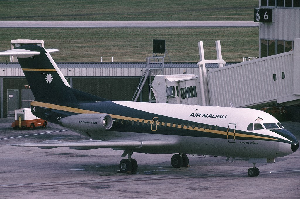 Air Nauru Fokker 28 Fellowship at Melbourne (Tullamarine) Airport